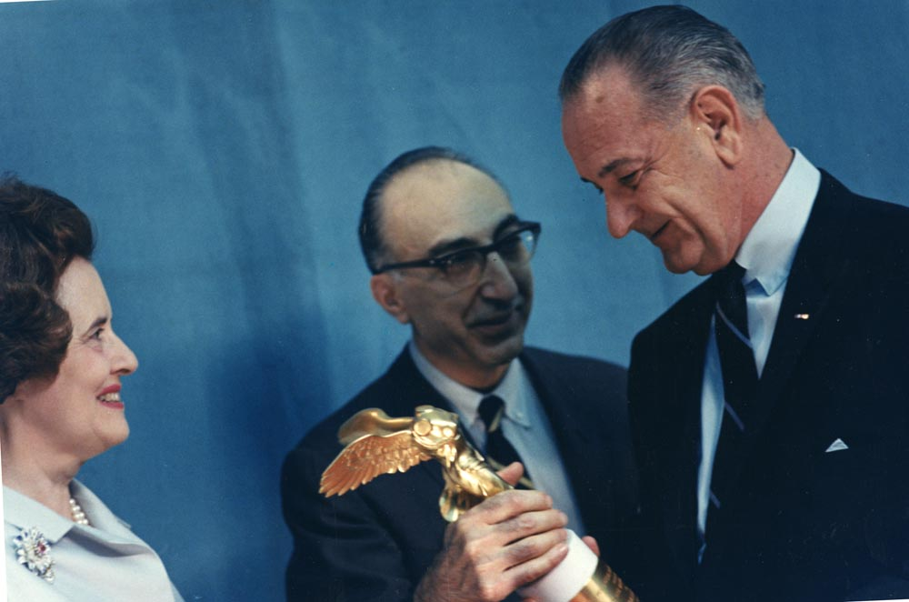 Remarks Upon Accepting the Special Albert Lasker Award for Leadership in Health. "I come here this morning to accept gratefully the 1965 Albert Lasker Award for Leadership in Health, but I want to make it clear to all of those who participate in this ceremony, and to all of those President Lydon Johnson receives a special Special Albert Lasker Award for Leadership in Health." Citation: Lyndon B. Johnson: "Remarks Upon Accepting the Special Albert Lasker Award for Leadership in Health," April 7, 1966. Online by Gerhard Peters and John T. Woolley, The American Presidency Project.